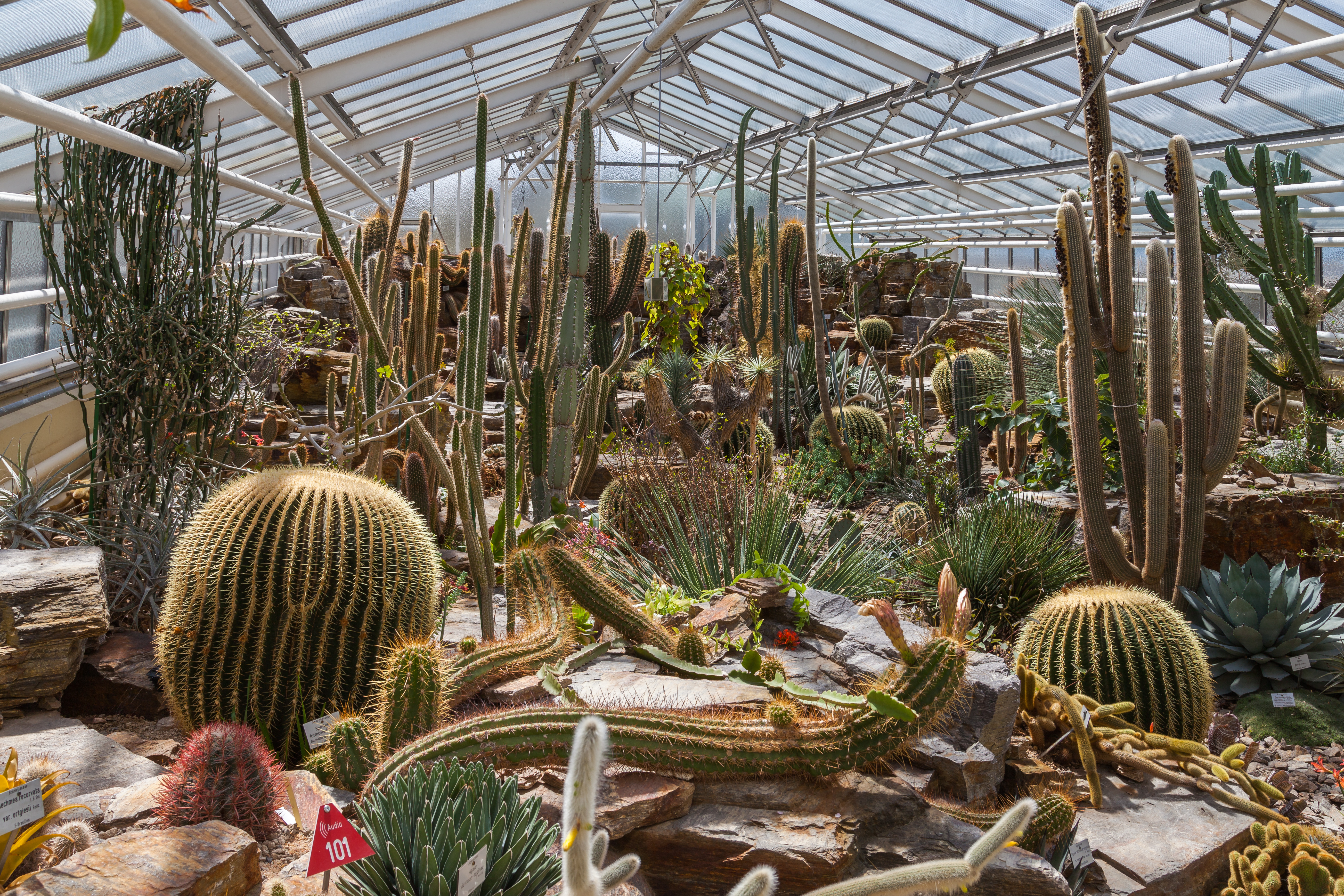 Mexikohaus, Botanic Garden, Munich, Germany